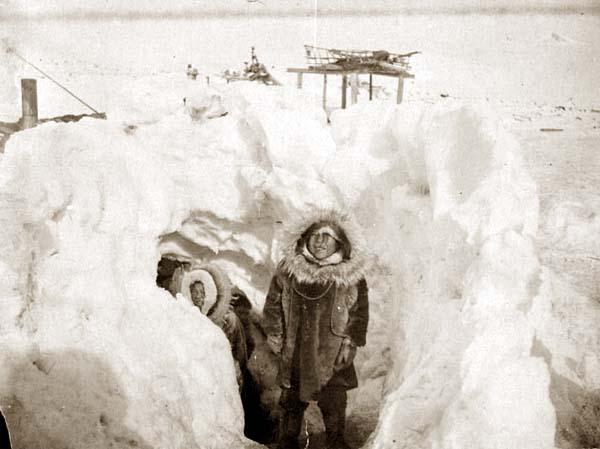 Alaskan Inuits in their winter home half underground in the village of Stebbins 1900 Description given at the source: "(...) photo of Alaskan Eskimos with their winter home half underground in village of Stebbins. It was made in 1900." (text from same source)